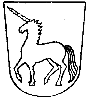 Coat of arms of the Wexels family. This is a family coat of arms and not an official or public one.